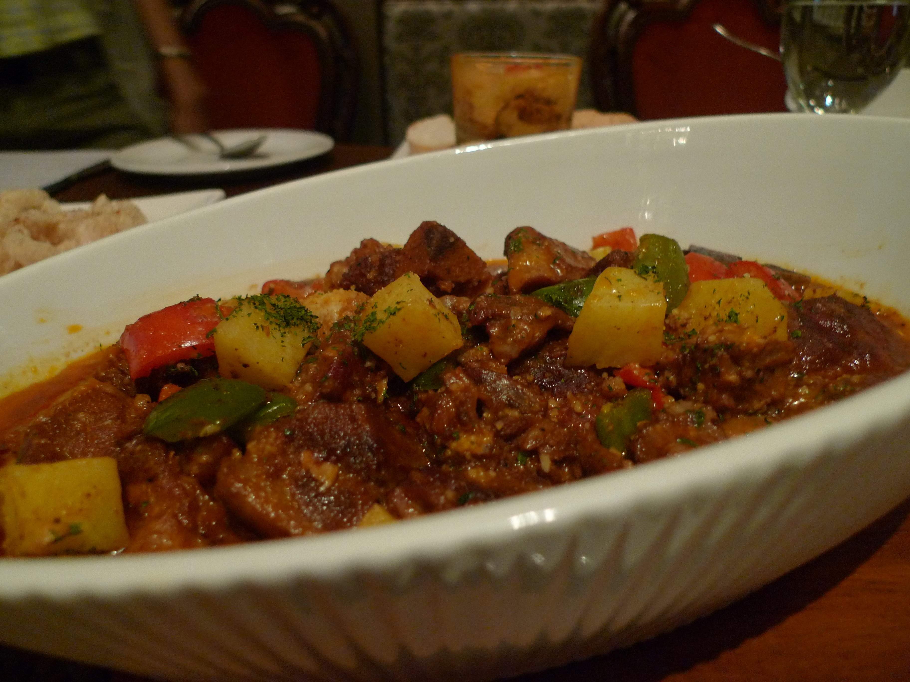 Cafe Roces Menudo